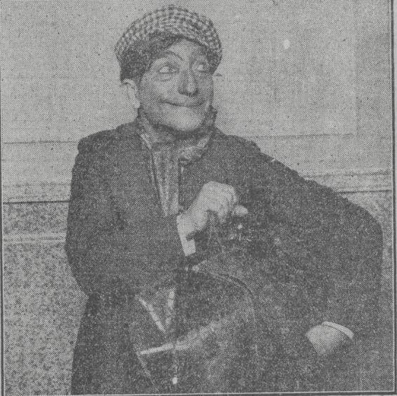 In character